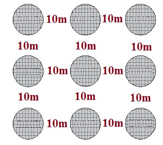 Configuration of spiral GHEs